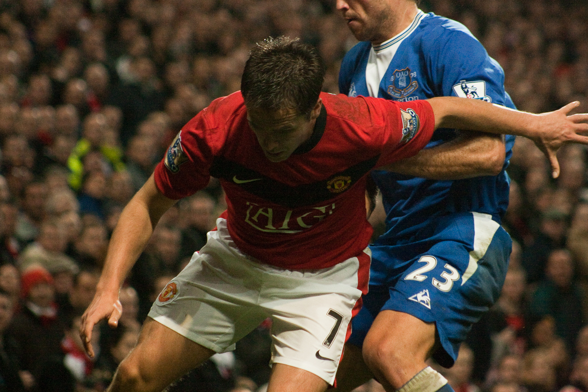 Michael Owen of Manchester United defended by Lucas Neill of Everton